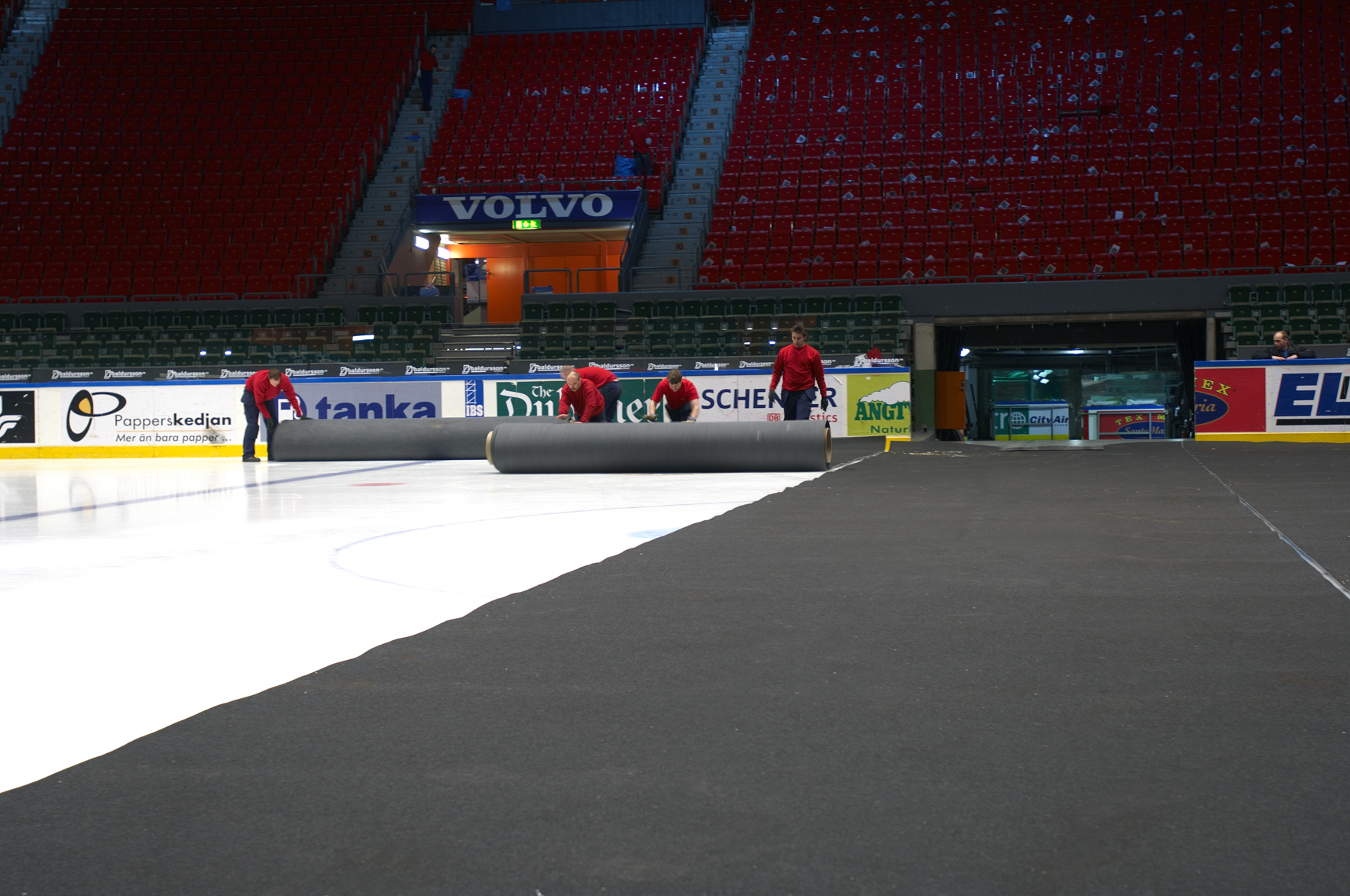 Covering of ice before concert